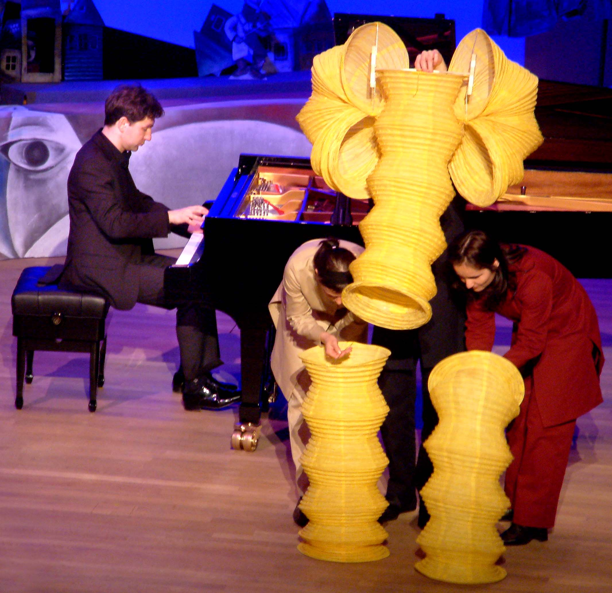 Austrian pianist Christopher Hinterhuber with Karin Schäfer Figurentheater performing "Waltz for a Young Elephant" (by Igor Stravinsky) at the "Philharmonie Luxembourg".